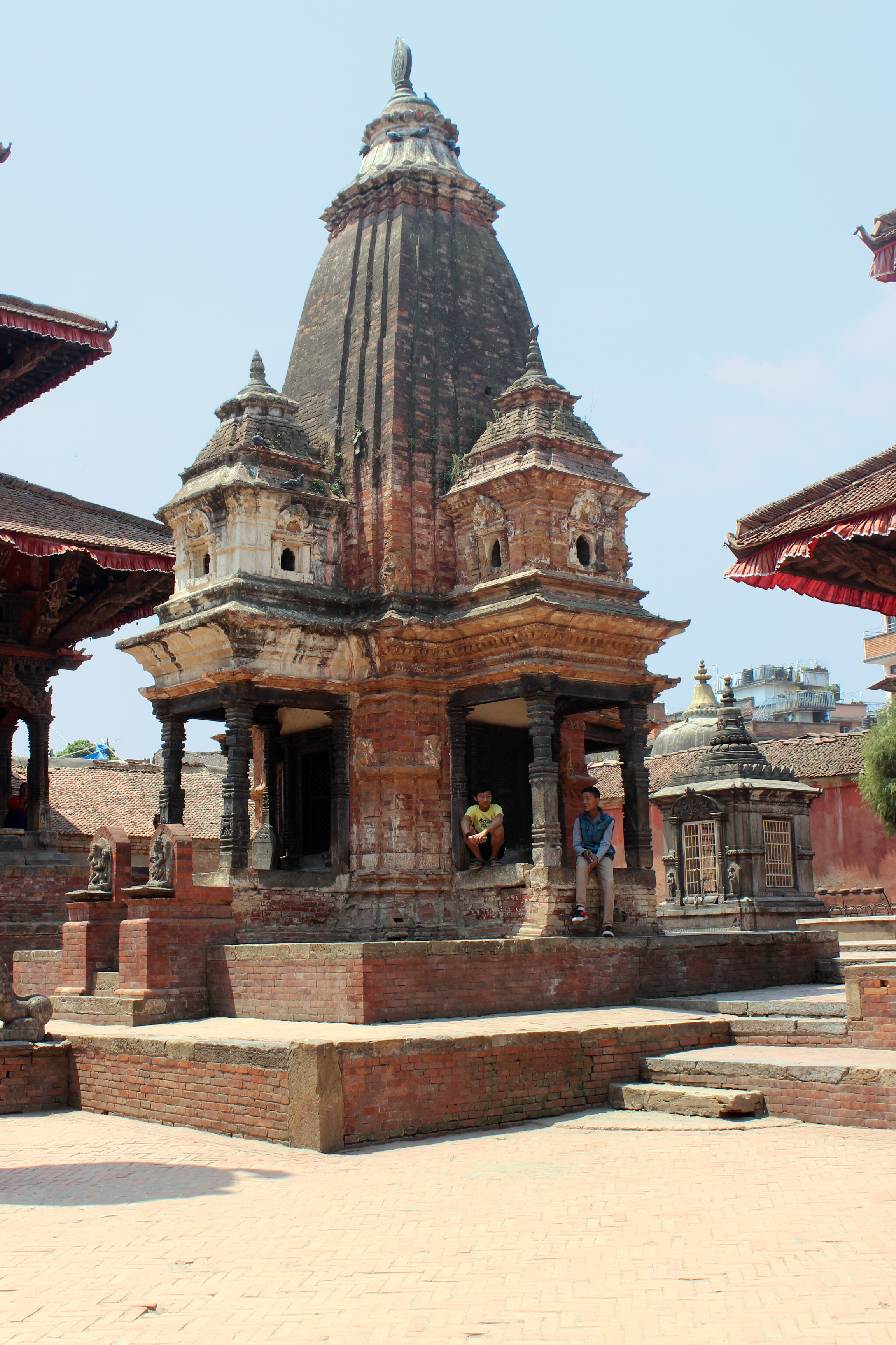 Narsimha Temple (Statue), at the Durbar Square, in Patan (Lalitpur), Nepal